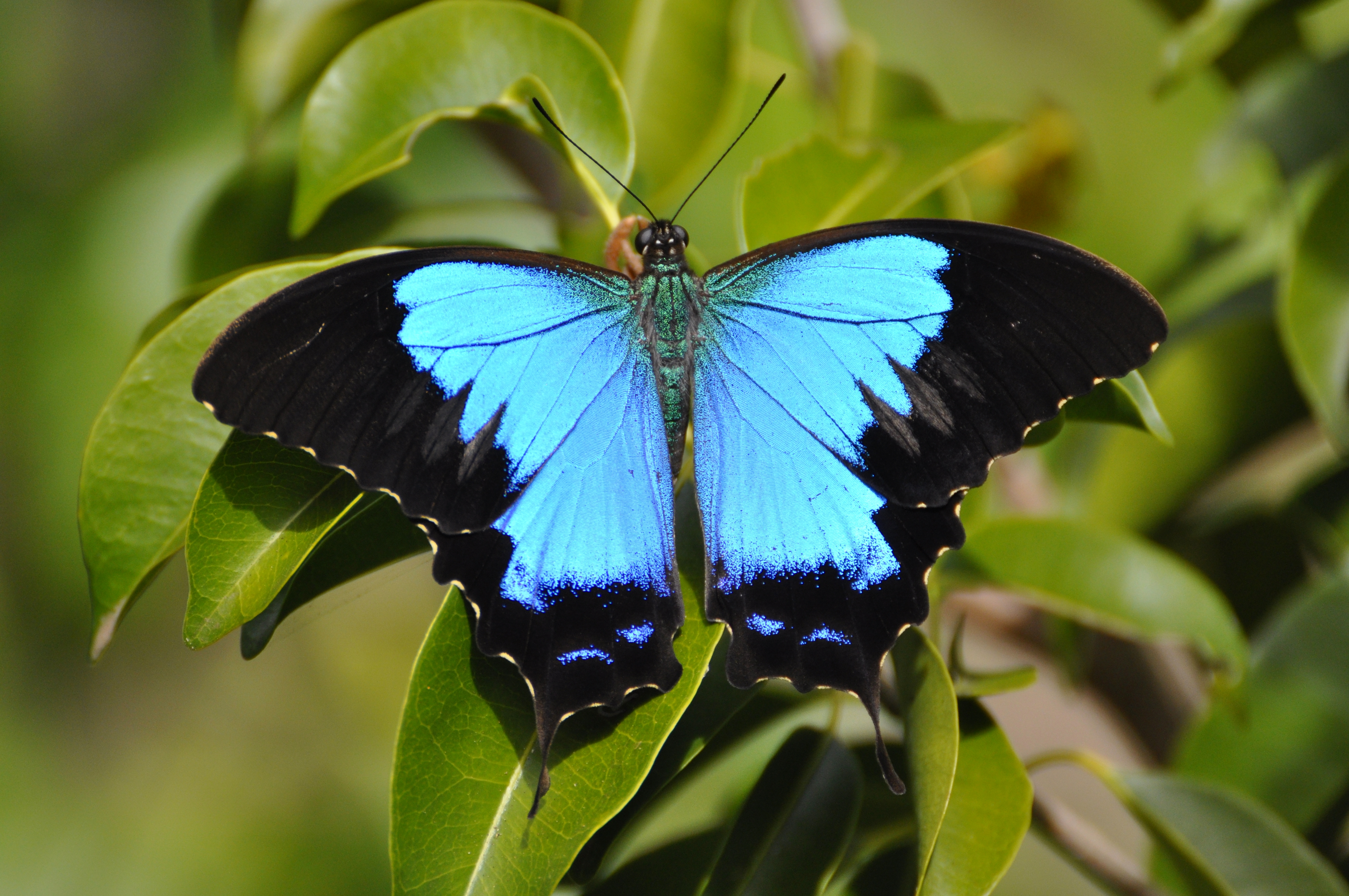 Tereka dry forest, Noumea, New-Caledonia